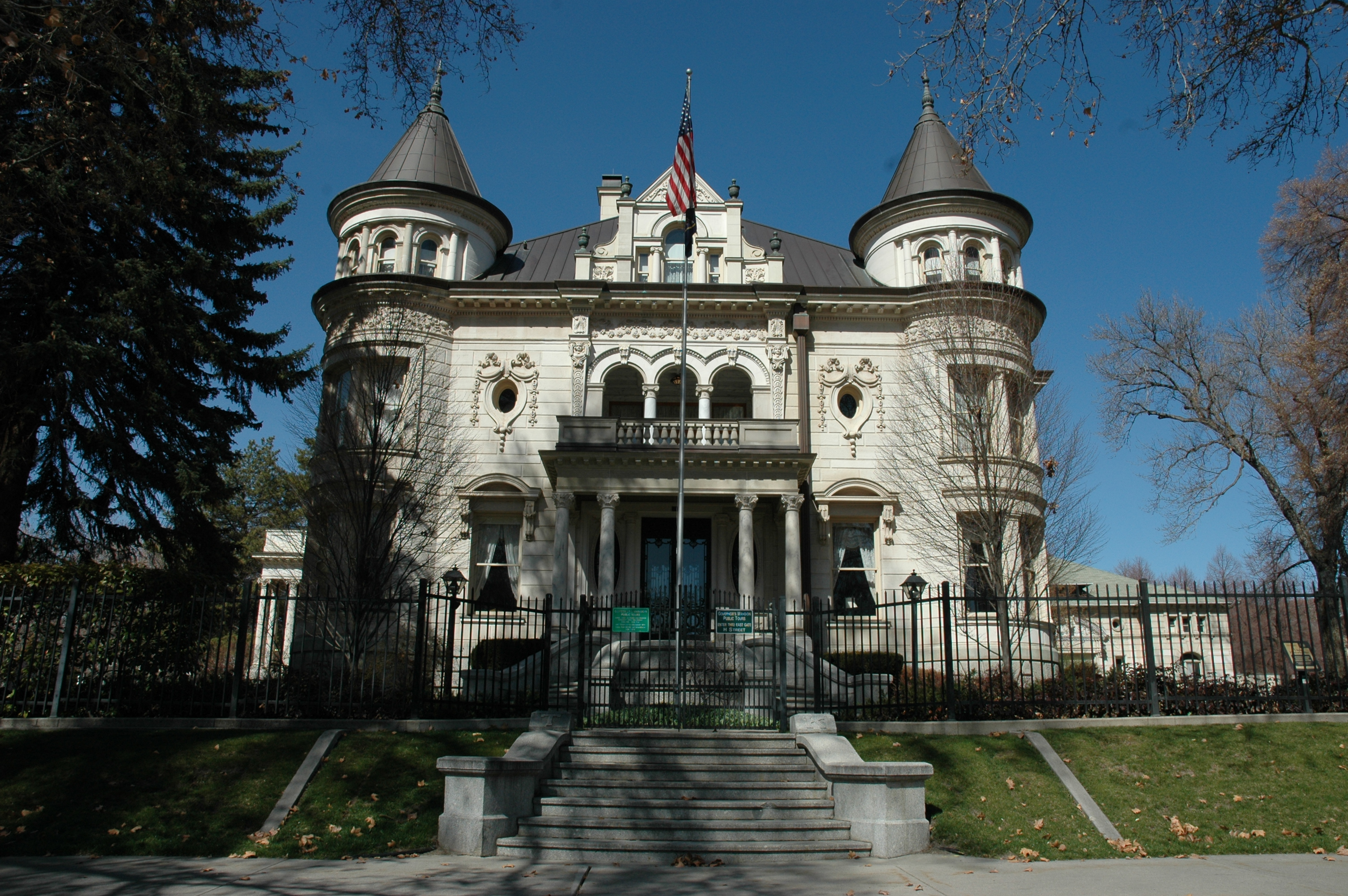 The Thomas Kearns Mansion, a historic home in Salt Lake City, Utah, United States, serves as the Utah Governor's Mansion.